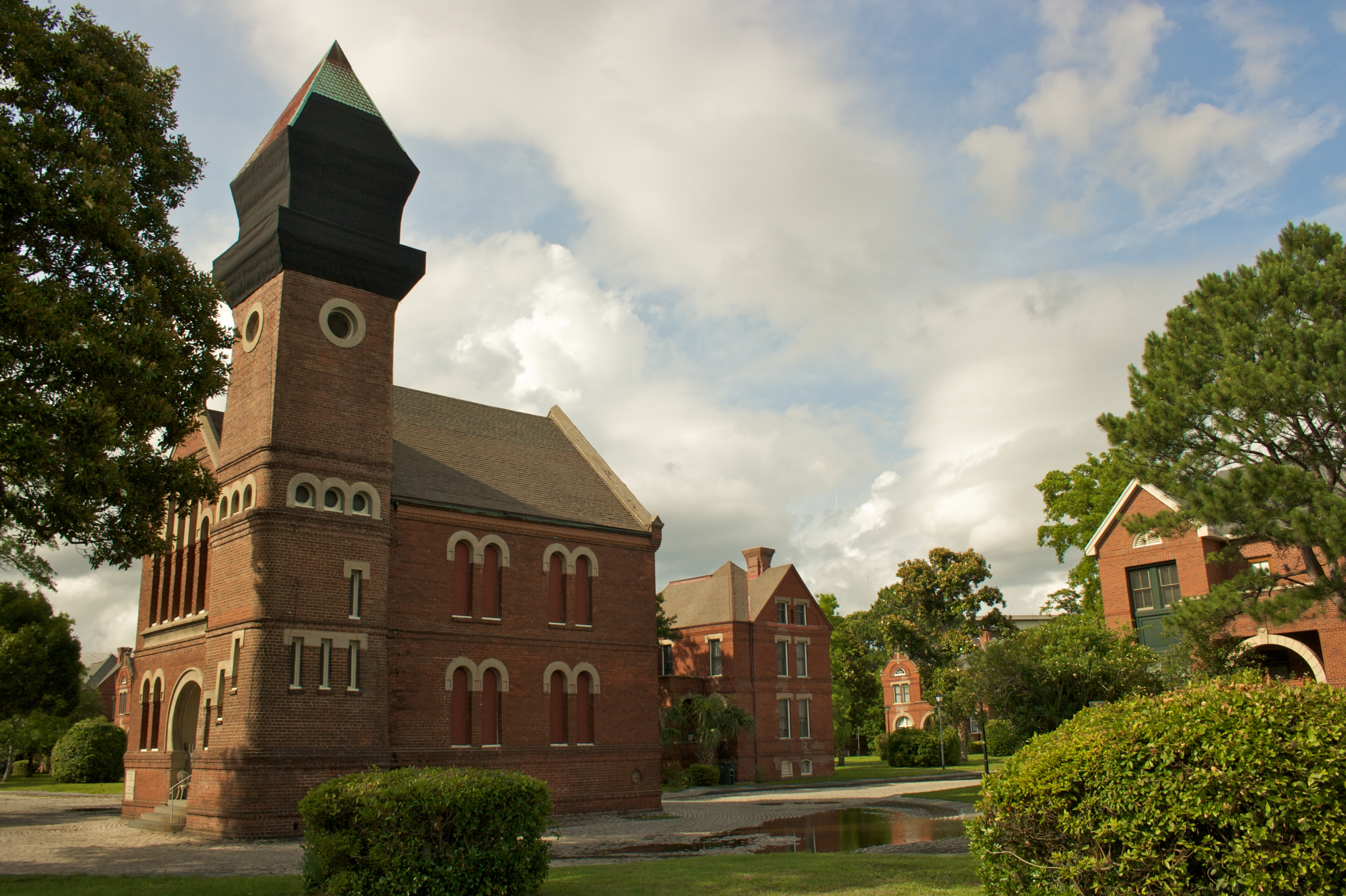 The Memorial Chapel in the historic William Enston Home project. With a partial image of one of the new homes built in 2006 development.